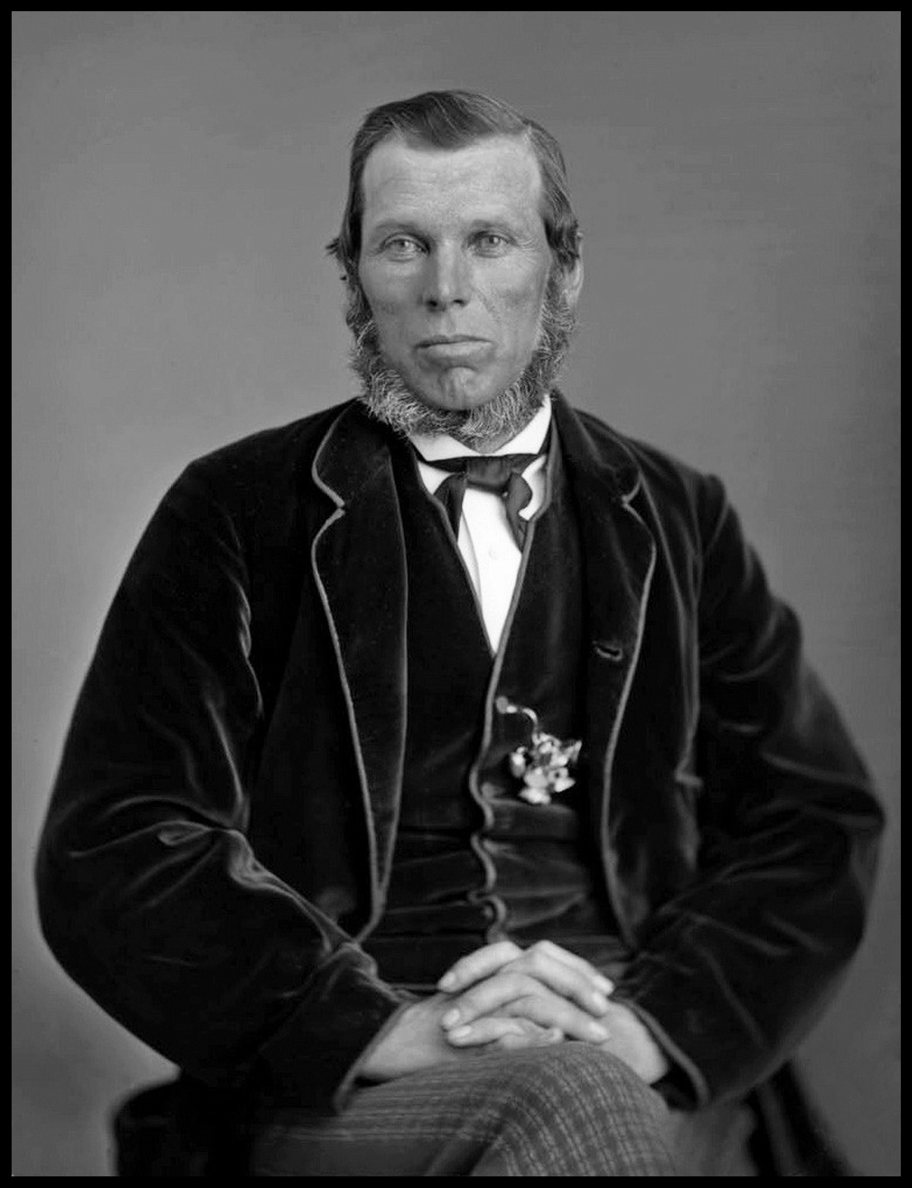 Wiiliam Pittman Lett (1819-1892) in his prime, age 51, April 1870